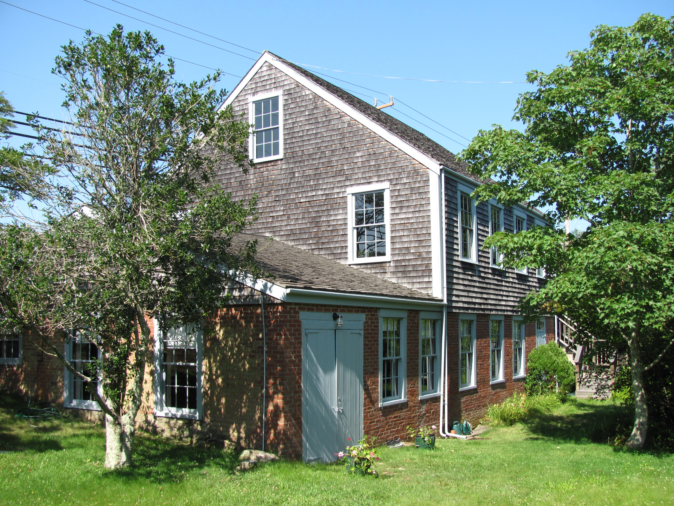 Old Mill, West Tisbury Massachusetts - headquarters of the Martha's Vineyard Garden Club